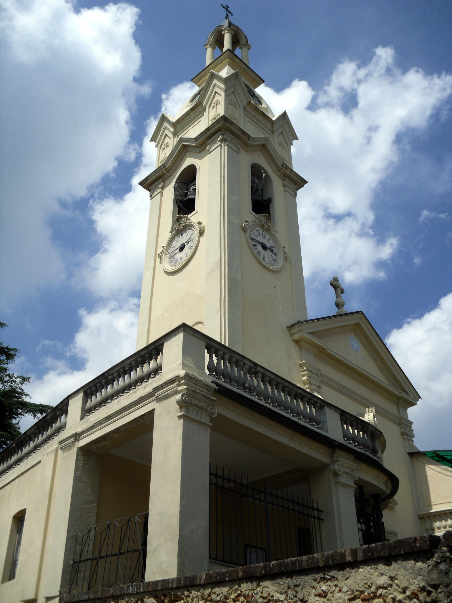 san lorenzo's church in primeglio